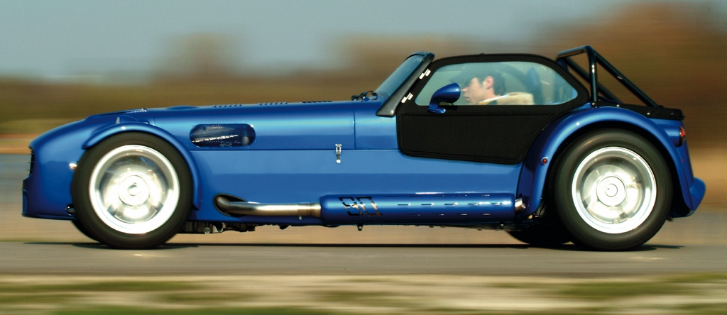 Since 2003, Donkervoort has equipped this car with the Audi 1.8T 20V-E gas turbo charged engine. This engine not only has proven reliability but it also meets the strictest emission standards and has a significantly compact, lightweight construction. Qualities that make this powerhouse superbly suited for use in a Donkervoort. In the D8, the engine is available with 150, 180, 210 or 270 bhp. Together with a total weight of just 630 kilos, this makes the D8 an extremely fast car. Depending on the version, it takes between 3.8 and 5.2 seconds to accelerate from 0 to 100 km/h.